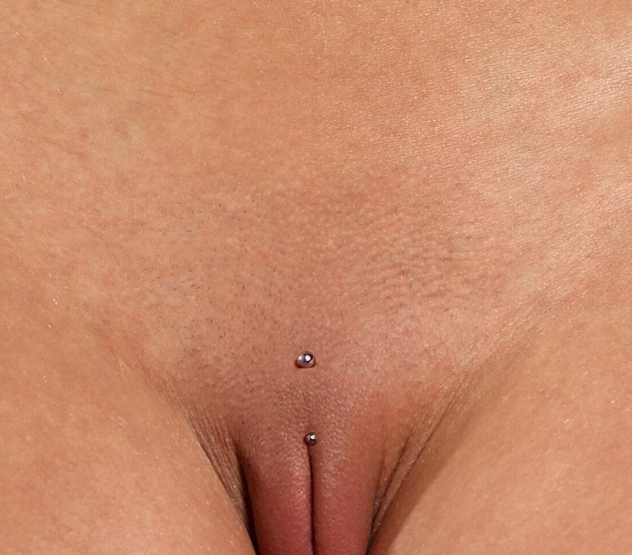 Christina Piercing